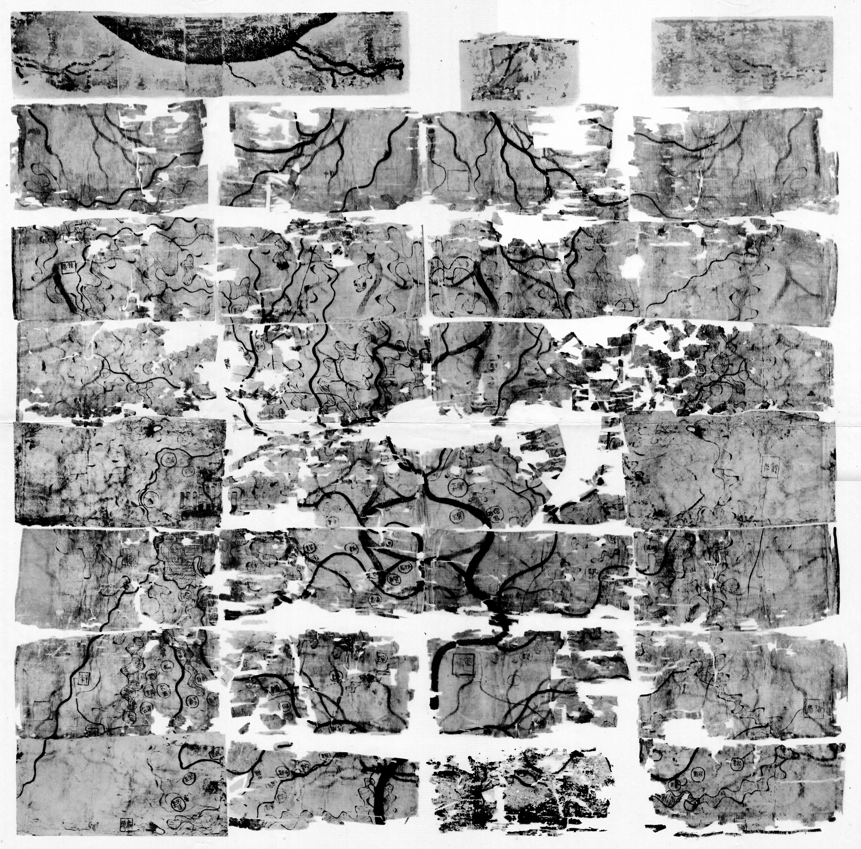 Silk map showing the topographic features of the area covered by the Han dynasty state of Changsha and the kingdom of Nanyue, corresponding to parts of the modern provinces of Hunan, Guangdong and Guangxi. Found in 1973 in Tomb 3 of the Mawangdui Western Han tomb complex. Datable to circa 168 BC. Map was folded five times into 32 sections which later disintegrated along the folds into thirty-two sheets. Dimensions: 96 × 96 cm. Scale: approximately 1:18,000. Oriented with south to the top. See also Mawangdui Military Map.